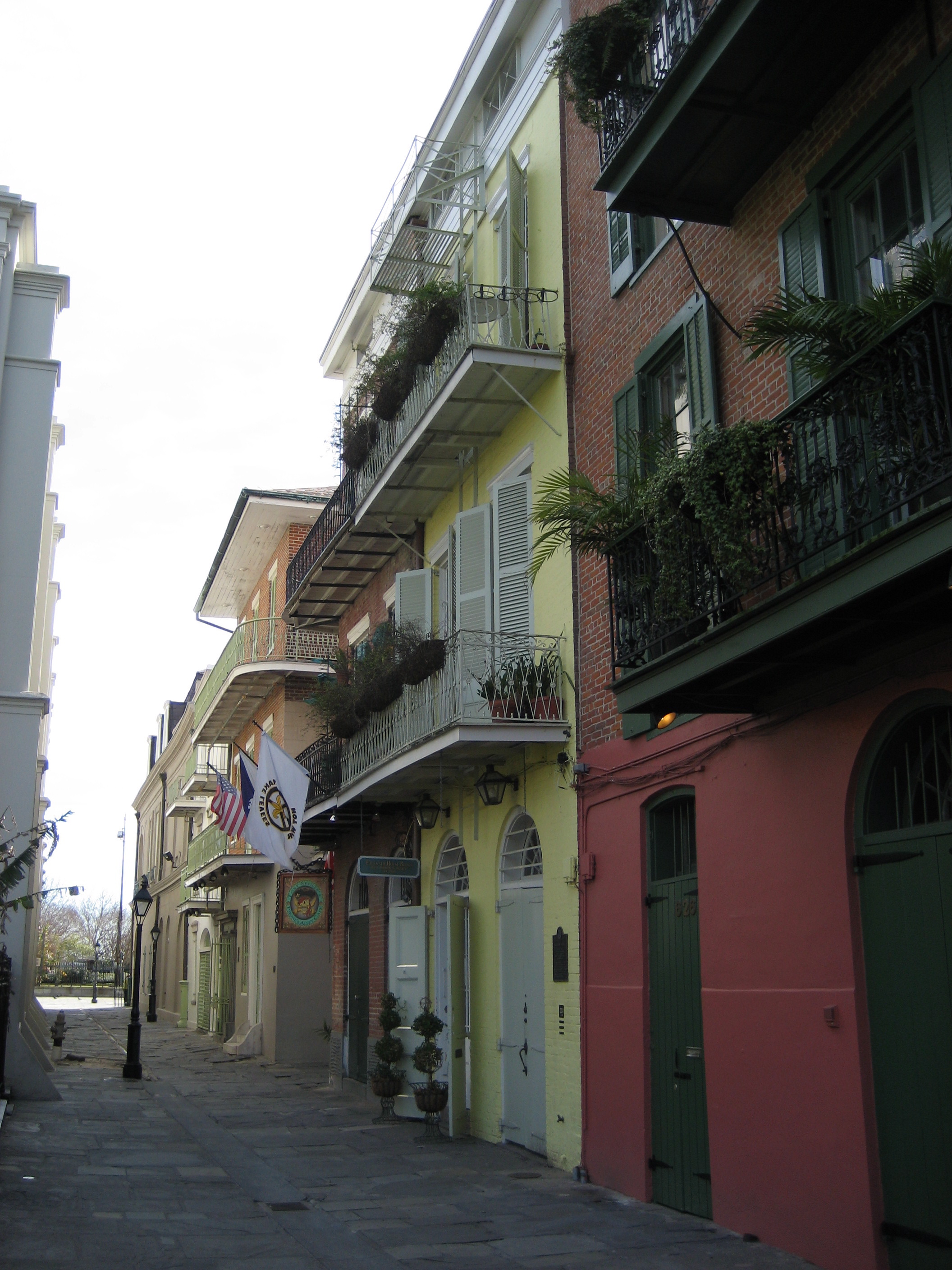 French Quarter, New Orleans, Louisiana Pirates' Alley. Former residence of writer William Faulkner is the yellow building.